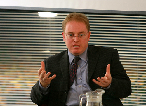 Tom Stoneham's inaugural lecture, November 2009